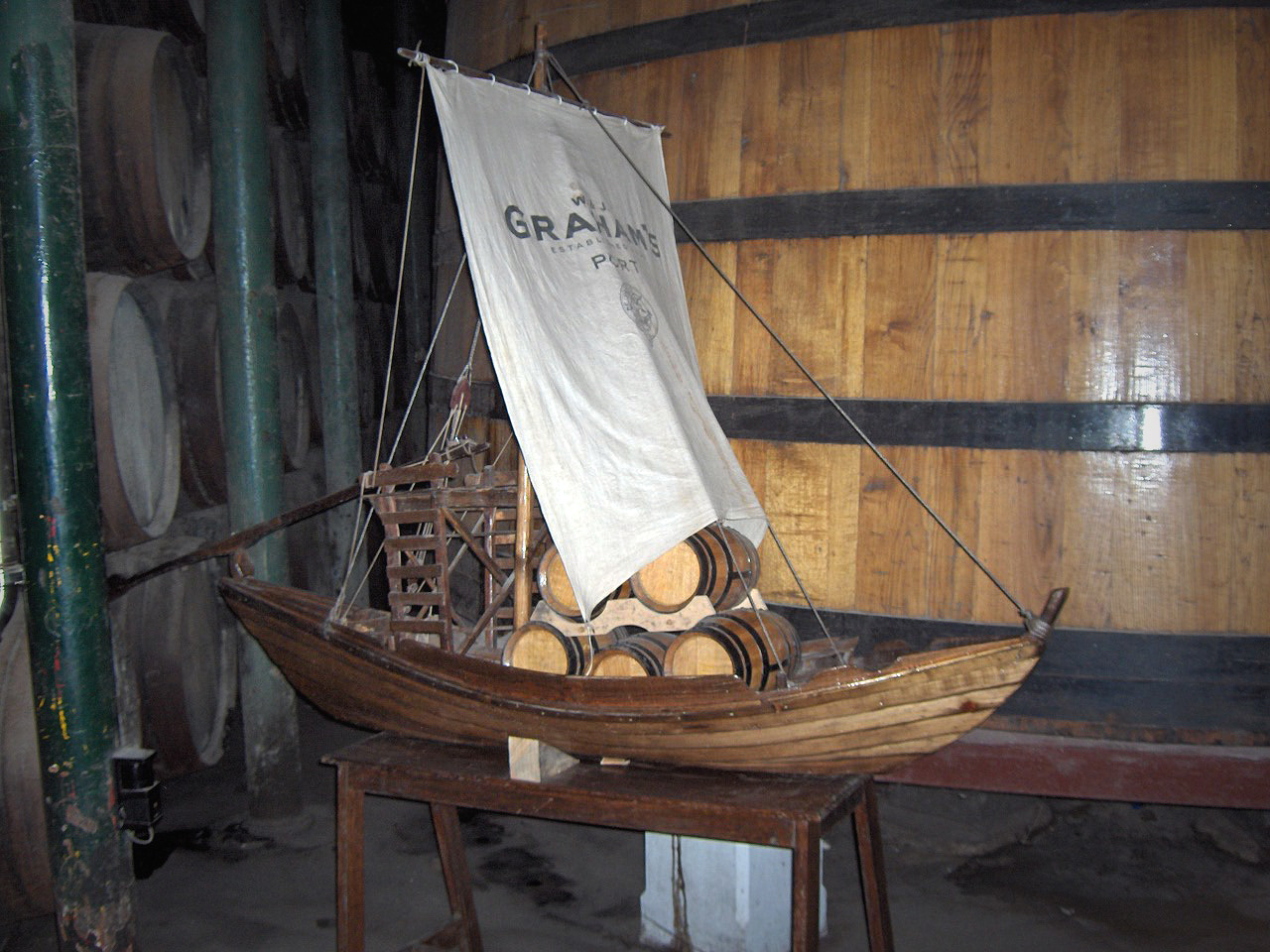 Model of a barco rabelo (flat sailing vessel) used to transport the wine along the Douro river to the wine cellars; Porto, Portugal